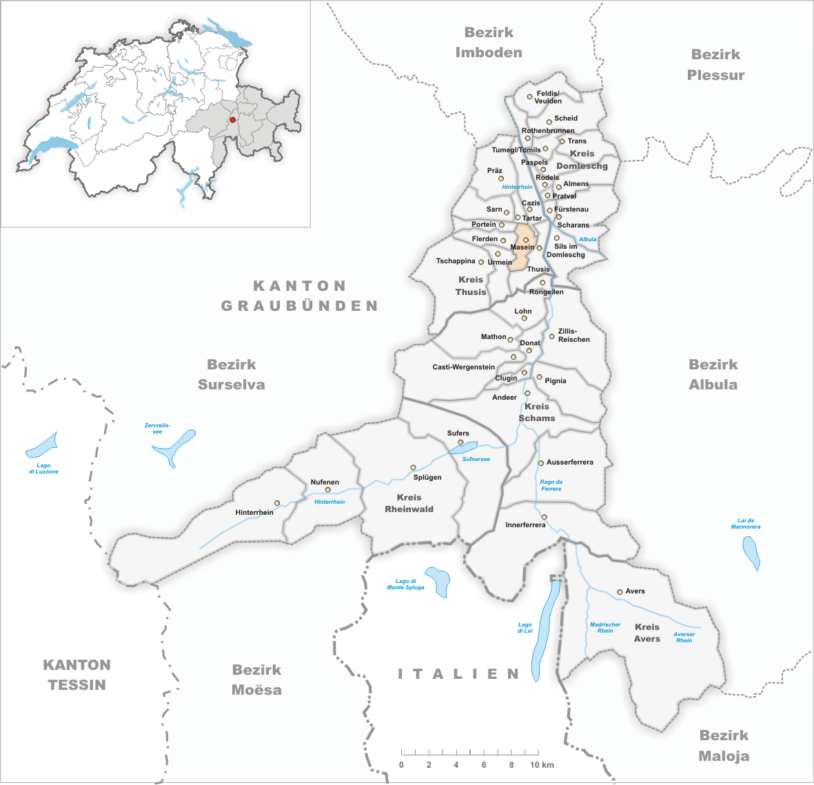 Municipality Masein